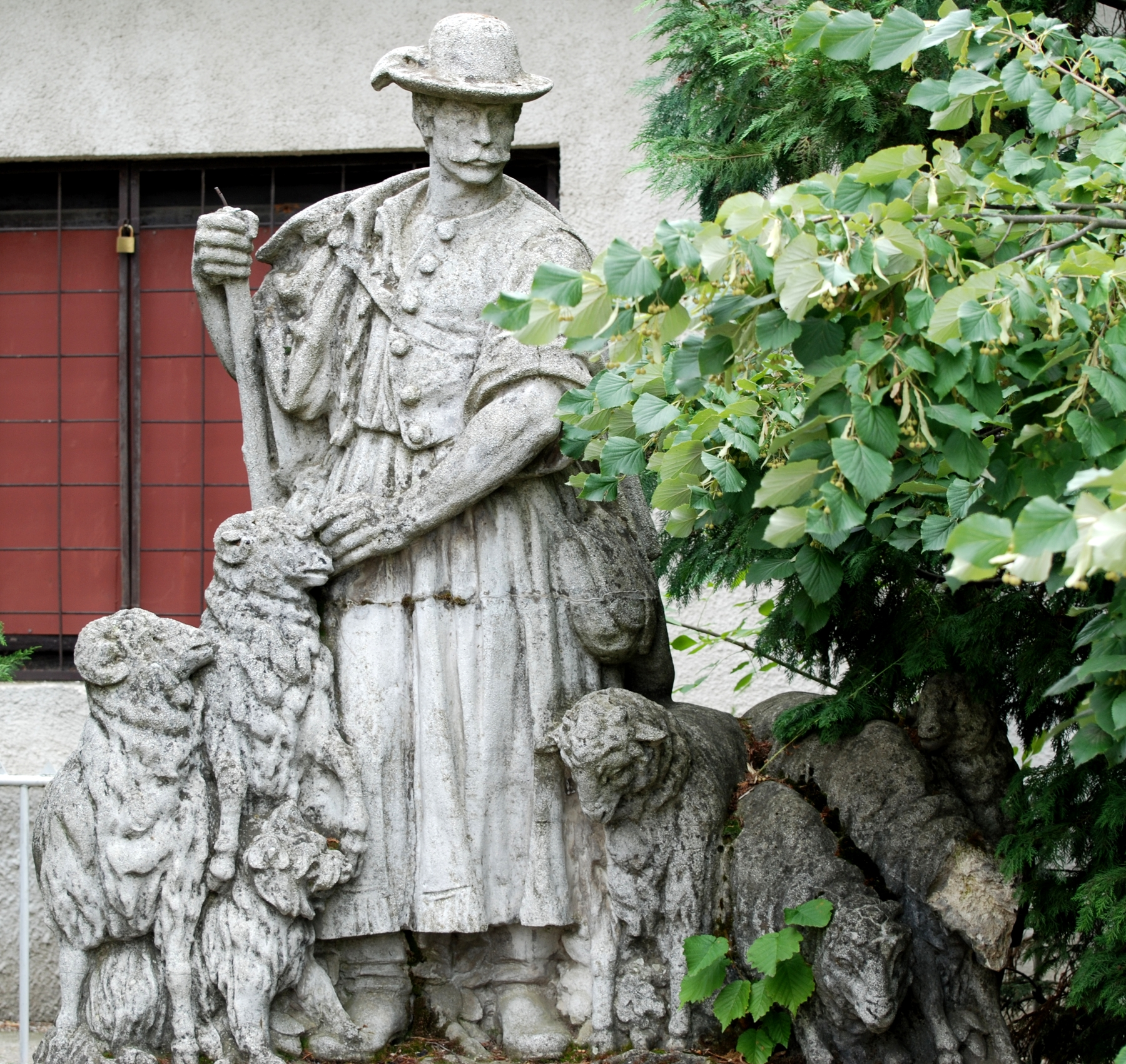 Shepherd Well - The statue over the well which is one of the sights of Ricse, a Hungarian village. The well was given to the village by Adolph Zukor, who was born in Ricse.